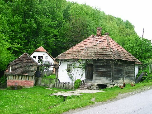 The village of Koštunići near Ravna Gora, Serbia